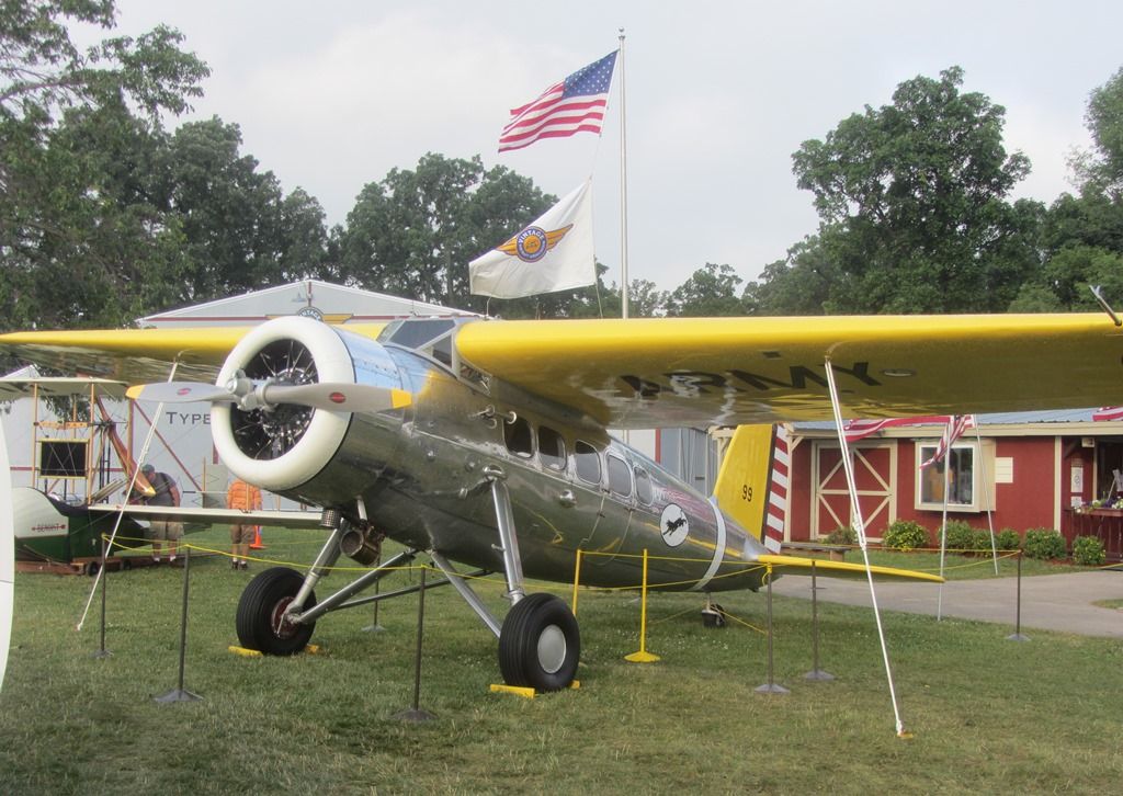 Lockheed Vega